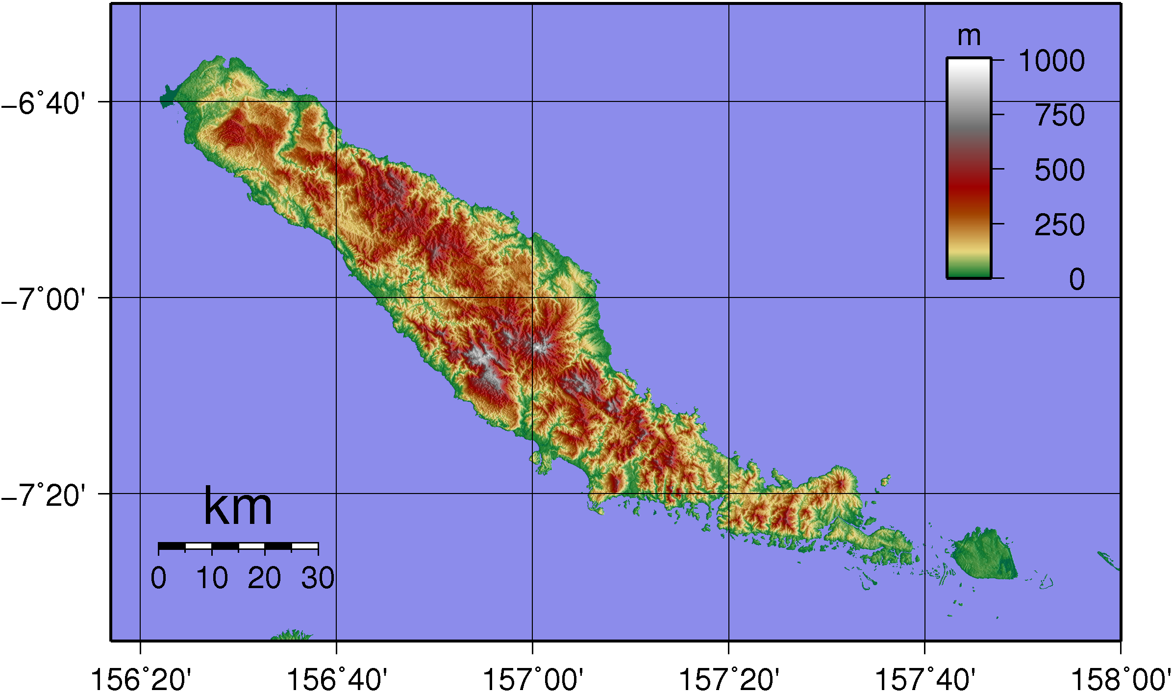 Topographic map of Choiseul Island in Solomon Islands. Created with GMT from pblicly released SRTM data.